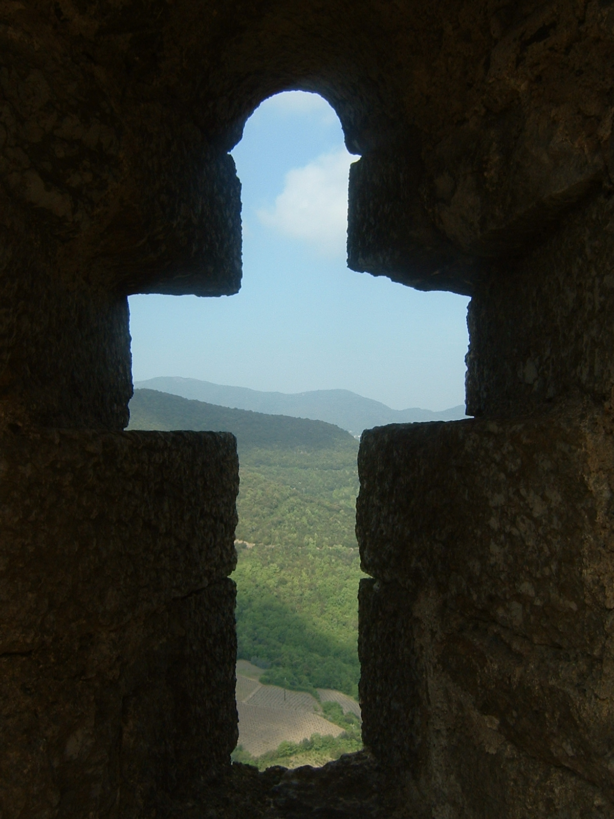 The cross-schaped "window" it is possible to see in the chapel of the castle of Termes